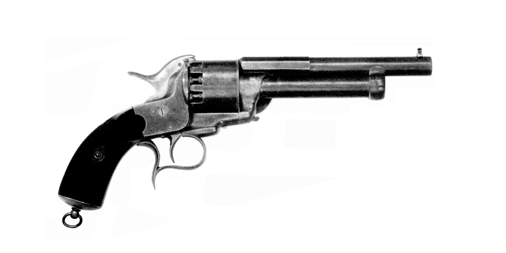 LeMat Revolver